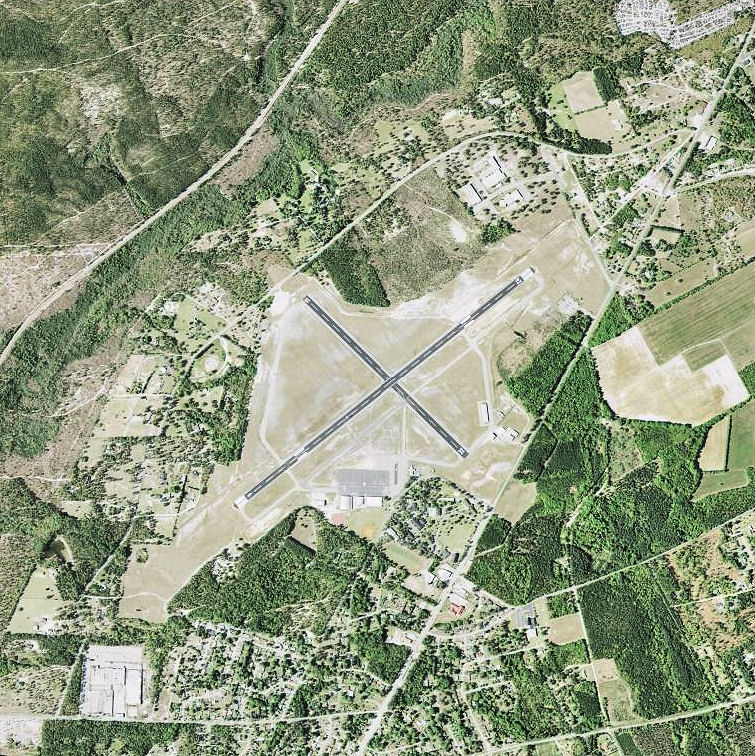 USGS digital orthophoto of Woodward Field, an airport in South Carolina